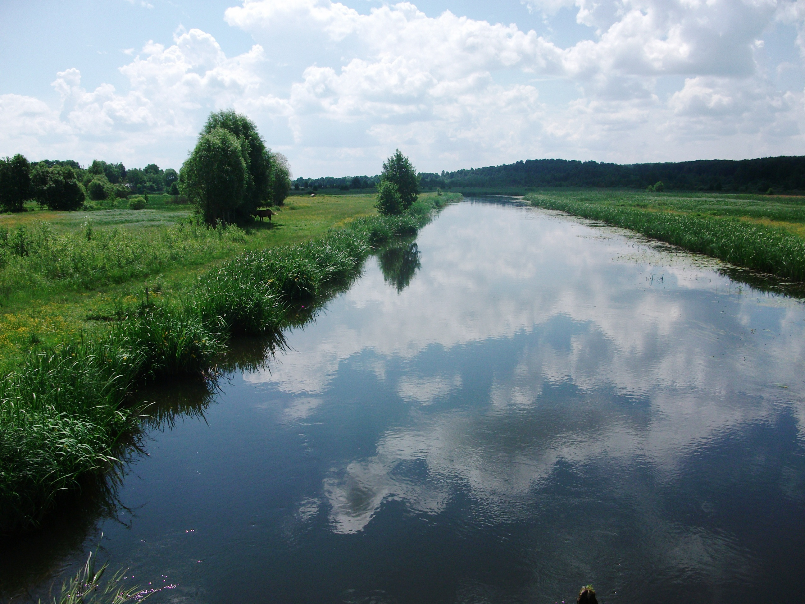 Western Byarezina River, Valozhyn district, Belarus